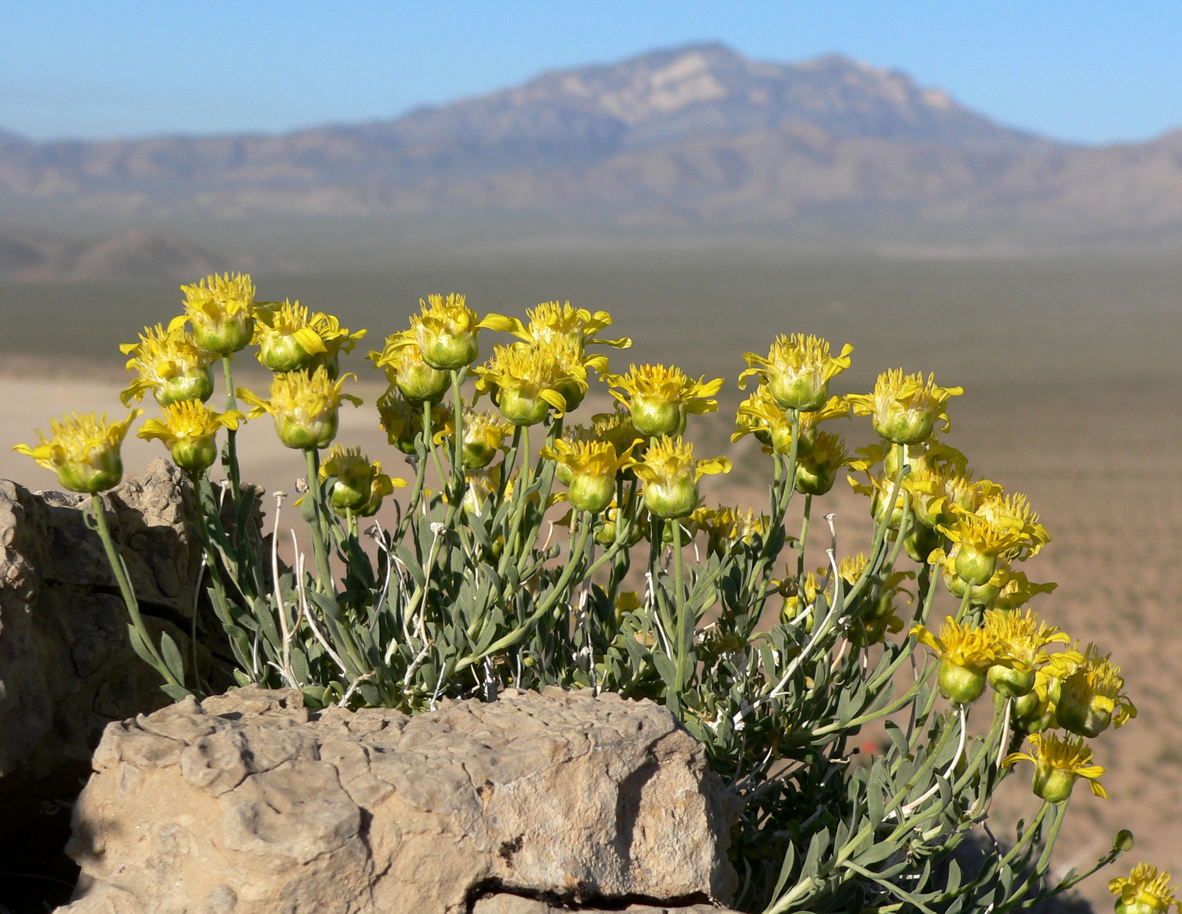 Acamptopappus shockleyi in the State Line Hills, Spring Mountains, just west of Primm, Nevada, with Clark Mountain visible on the horizon (elev. about 800 m)